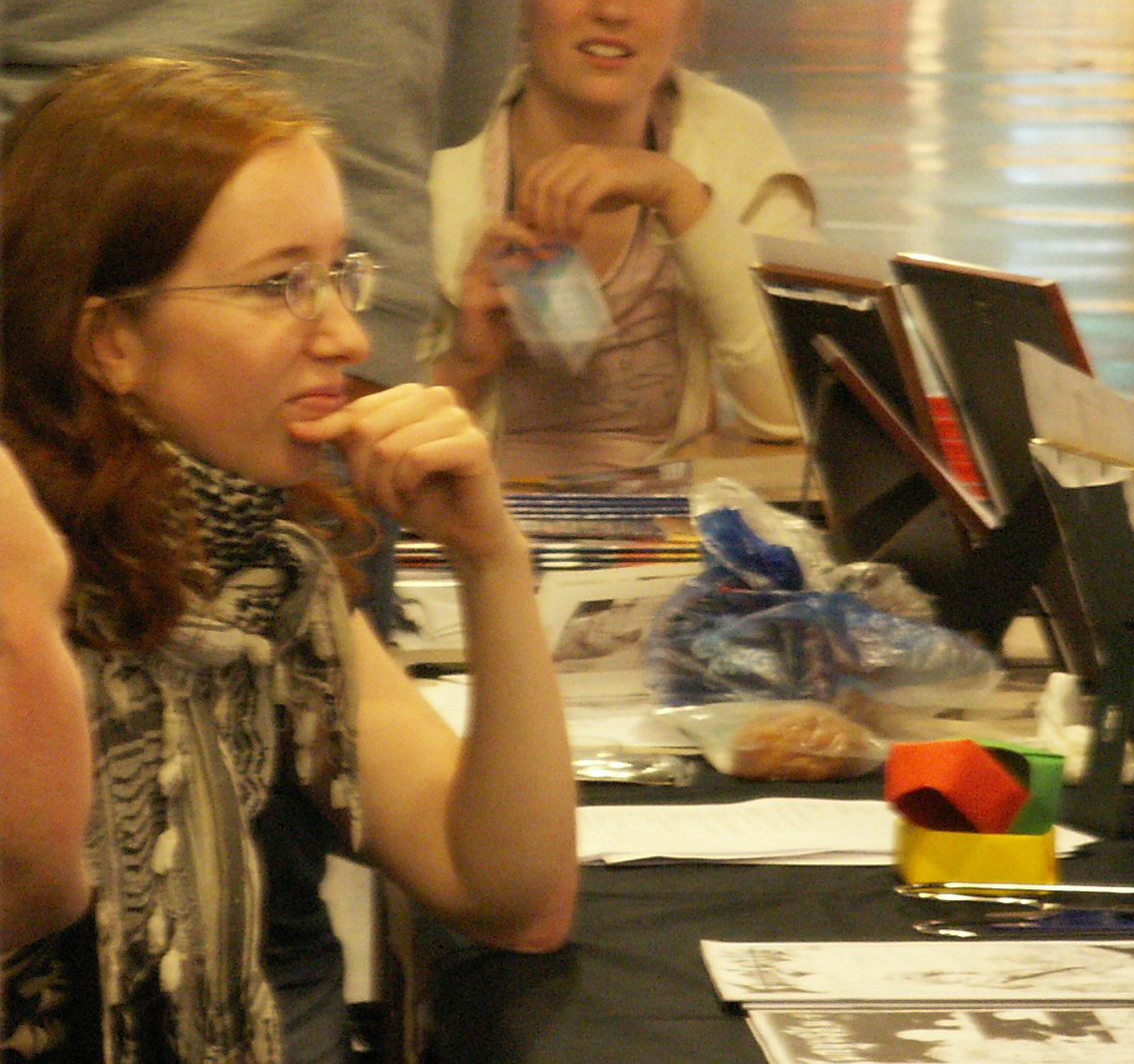 Tinet Elmgren at Göteborgs Seriefestival, 25 November 2011.